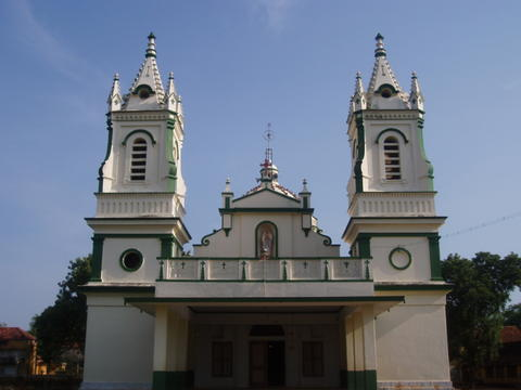 Kuthalu Church